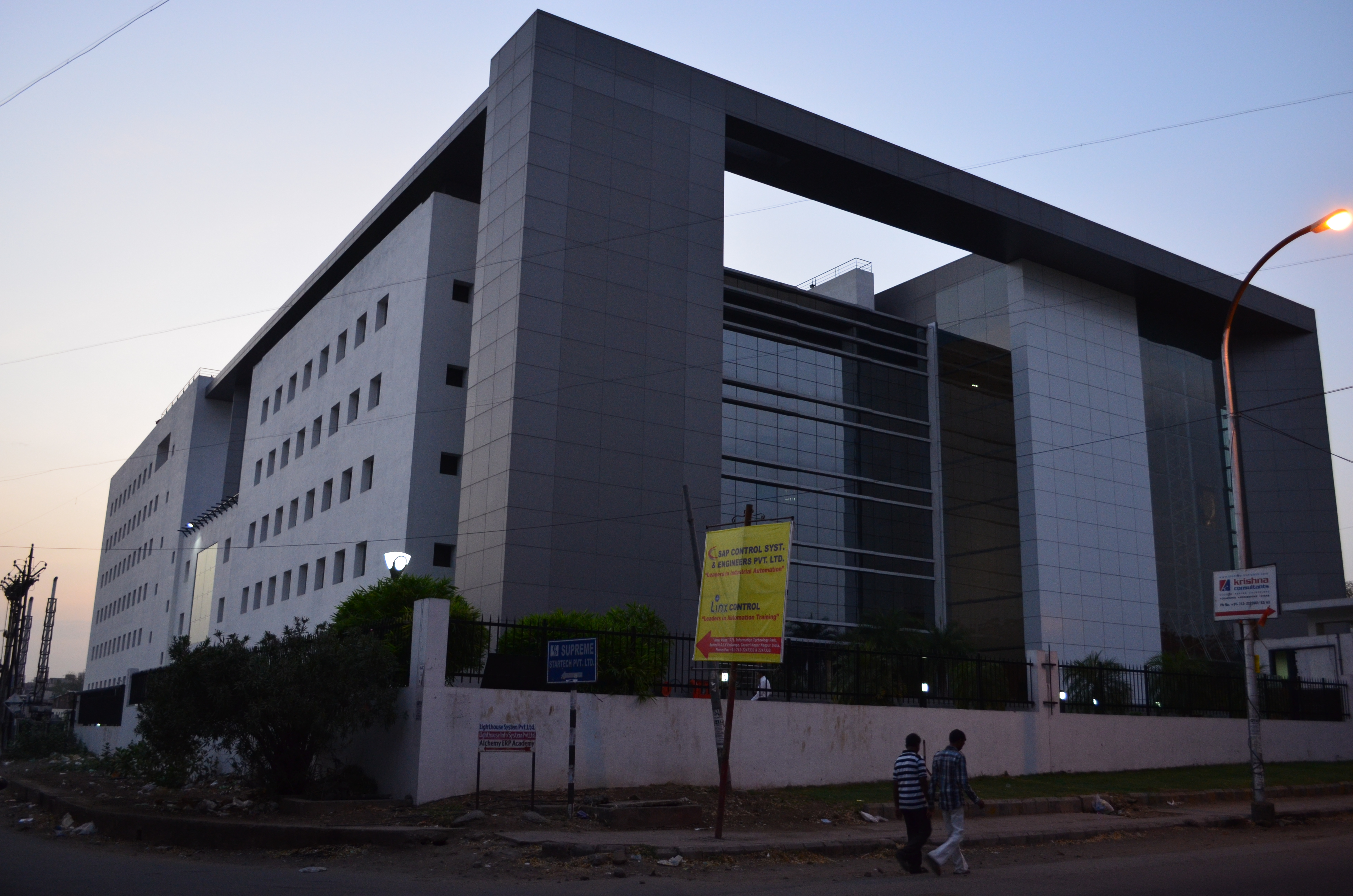 One of the building of Nagpur IT-Park